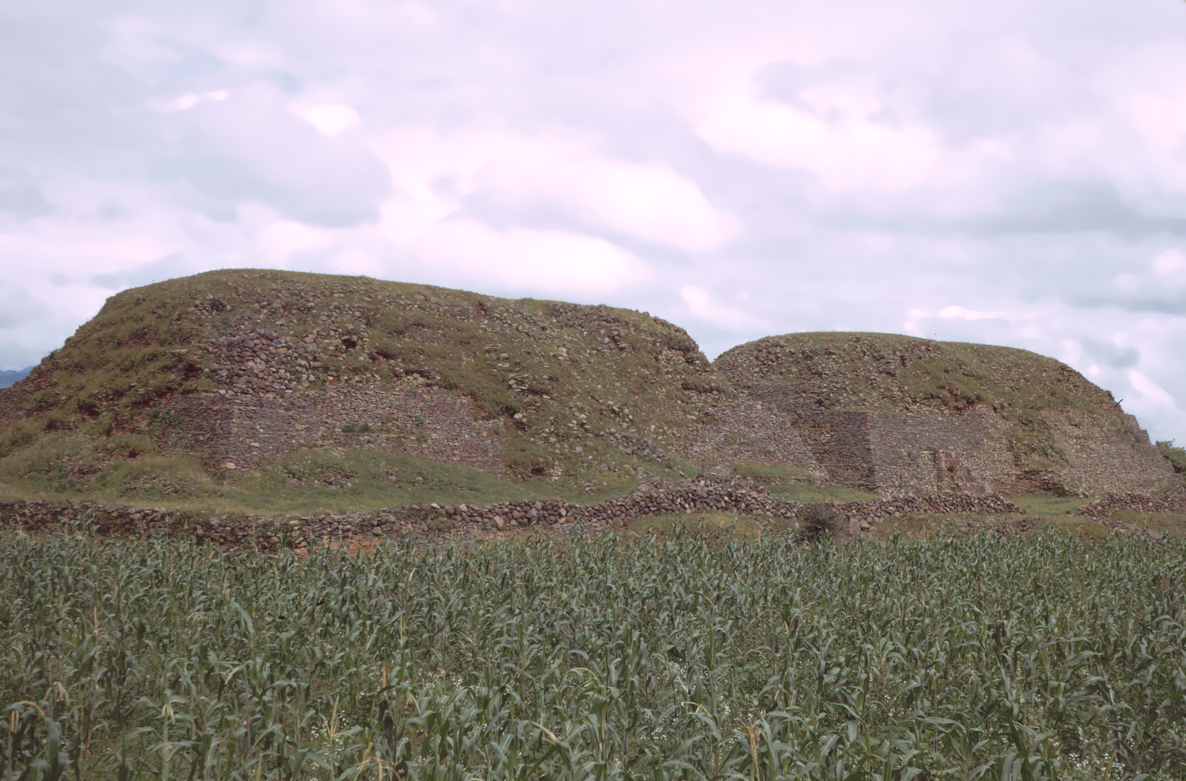 Ihuatzio, Michoacan, Mexico: Twin pyramids